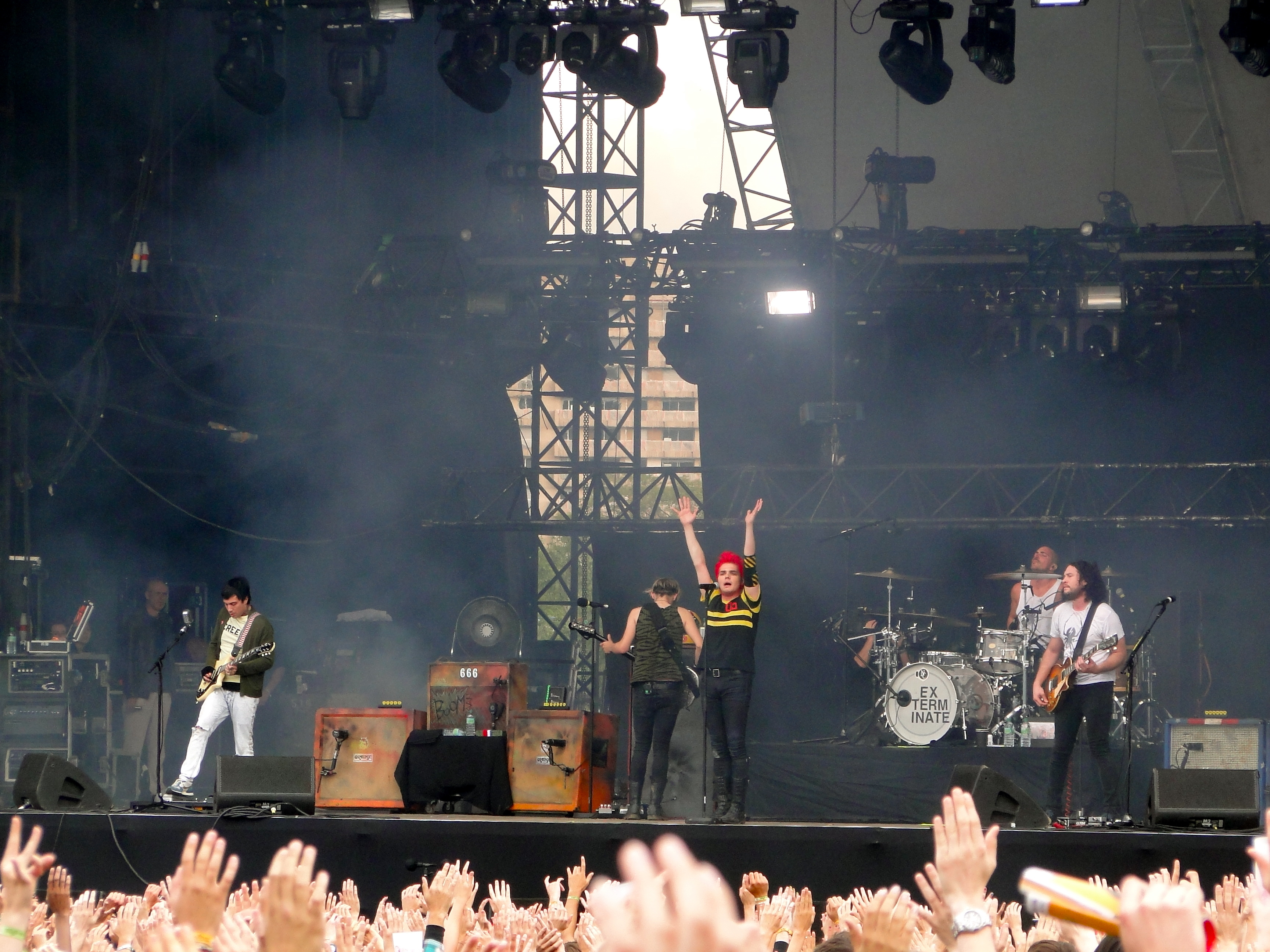 My Chemical Romance at Rock en Seine Festival, August 2011